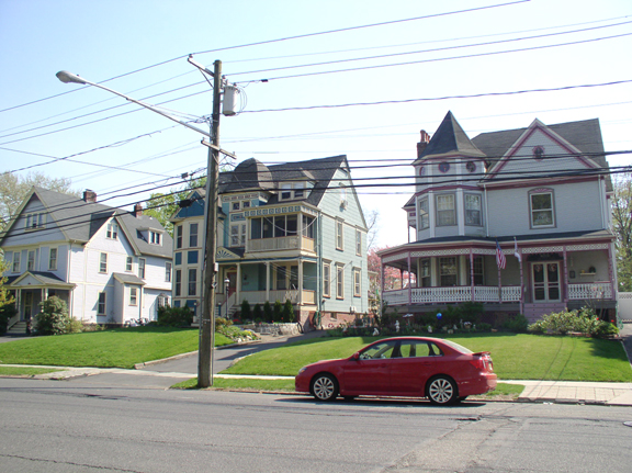 Victorian homes along a street in Rutherford New Jersey.